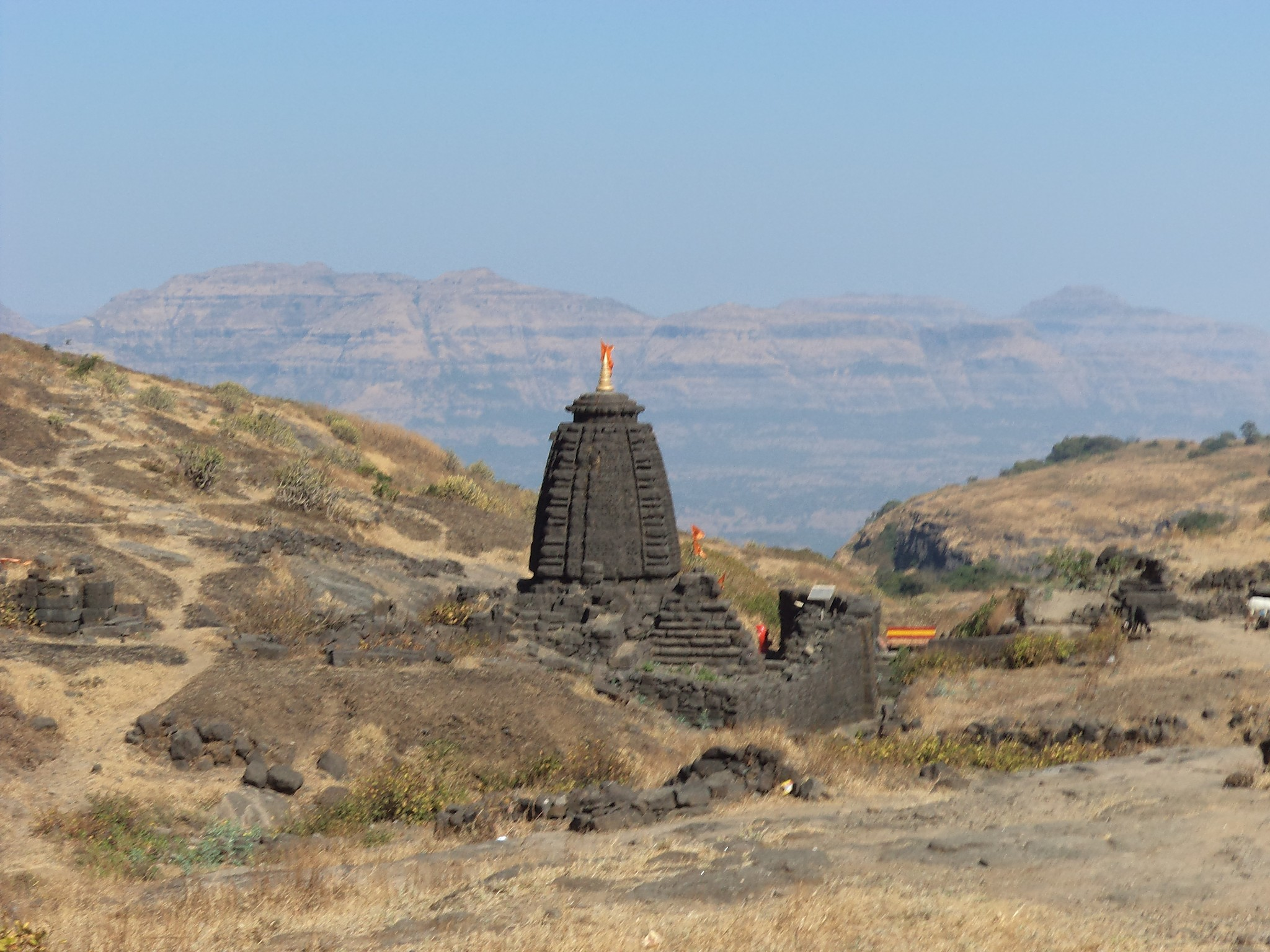 The Temple is situated in Harishchandragad in the Ahmednagar region of India This temple is marvelous example of the fine art of carving sculptures out of stones that prevailed in ancient India.